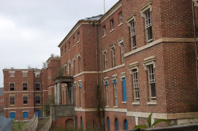 St Georges Asylum The old Asylum next door to the prison